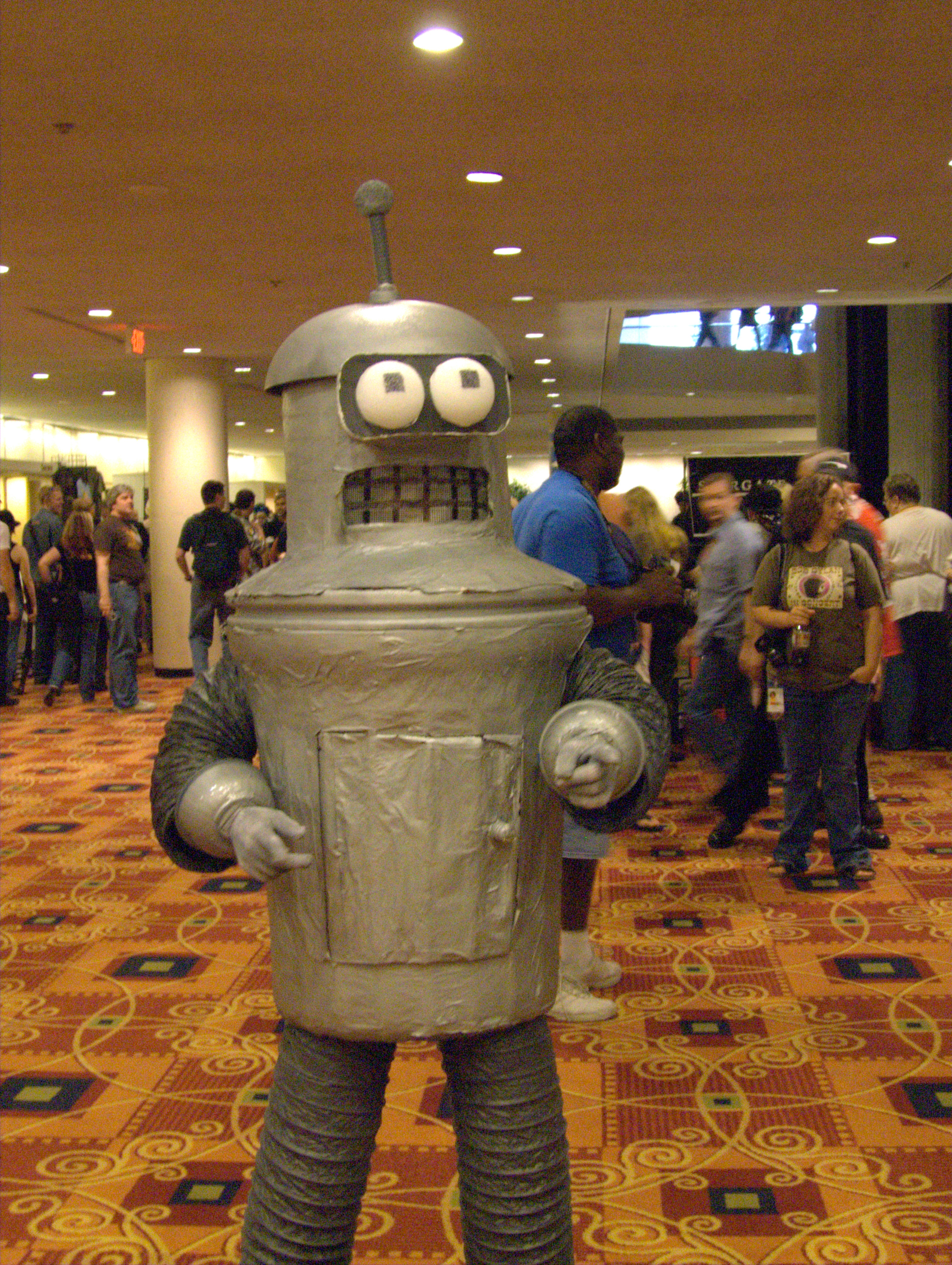 Bender (Futurama) costume.